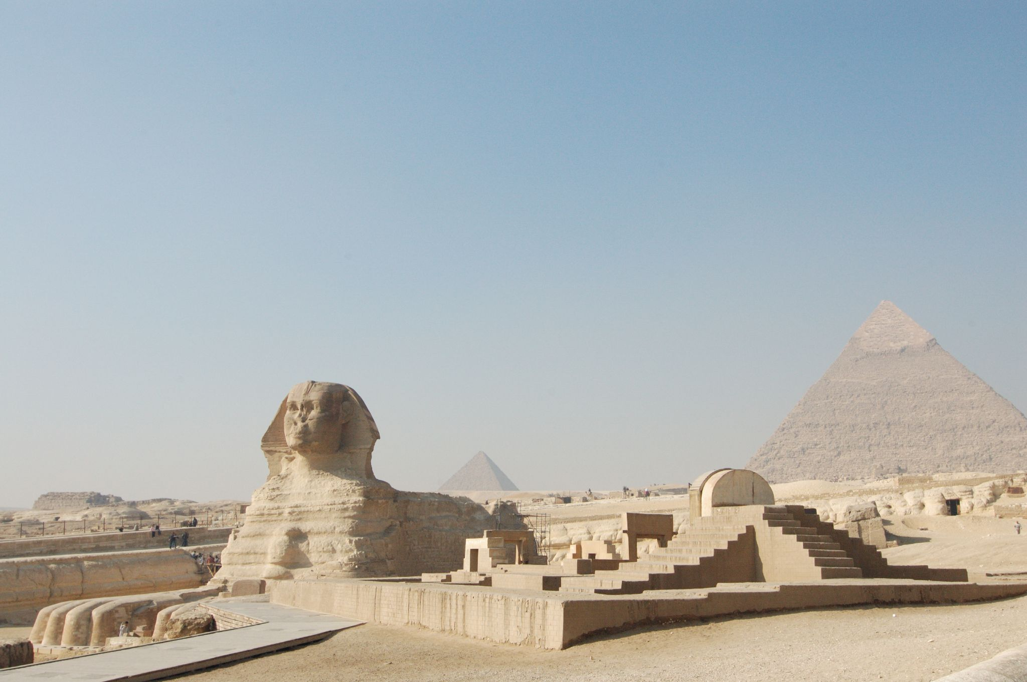 Pyramid of Khafre and the Great Sphinx. New Kingdon Sphinx Temple.